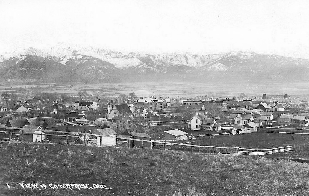 Enterprise, Oregon, circa 1912. Published in the USA prior to 1923, public domain.